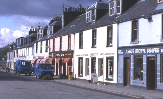 Lochgilphead